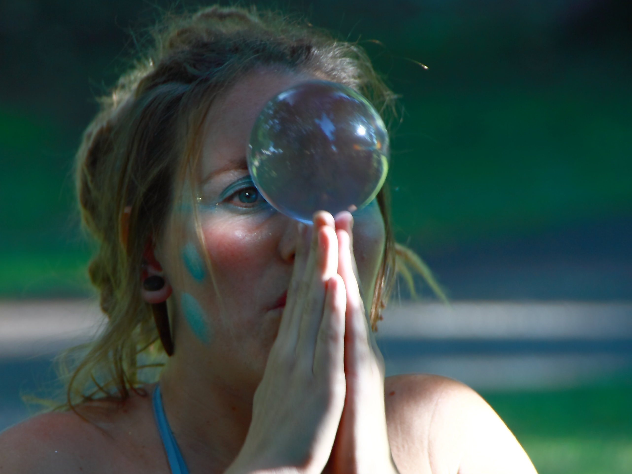 A street performer juggling with a crystal ball at the children´s party at TFF Rudolstadt.